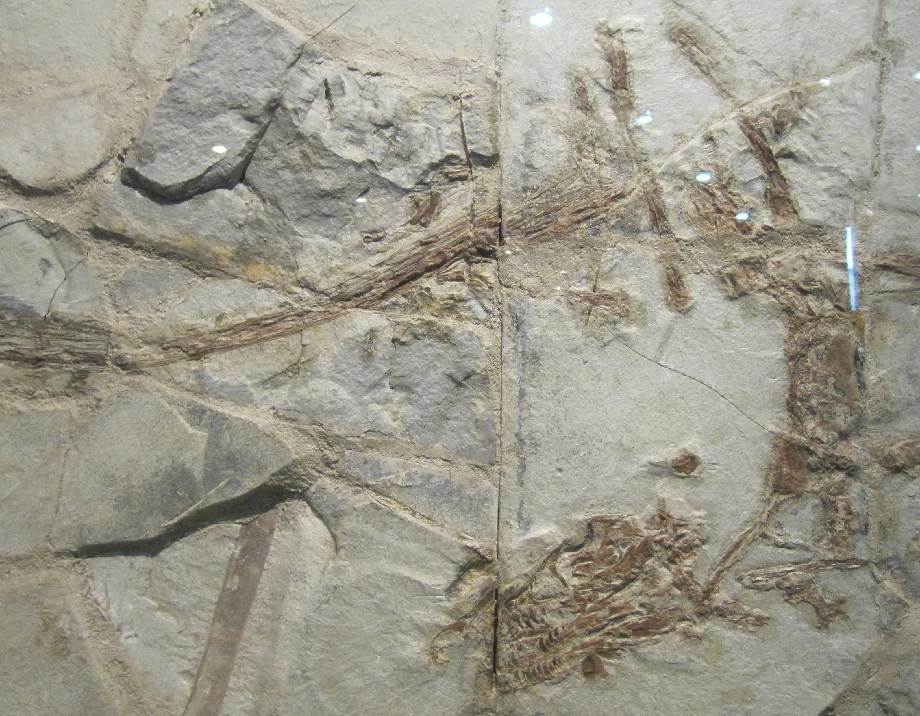 Sinornithosaurus millenii. Large collection of Fossils & Dinosaurs can be found at the Beijing Museum